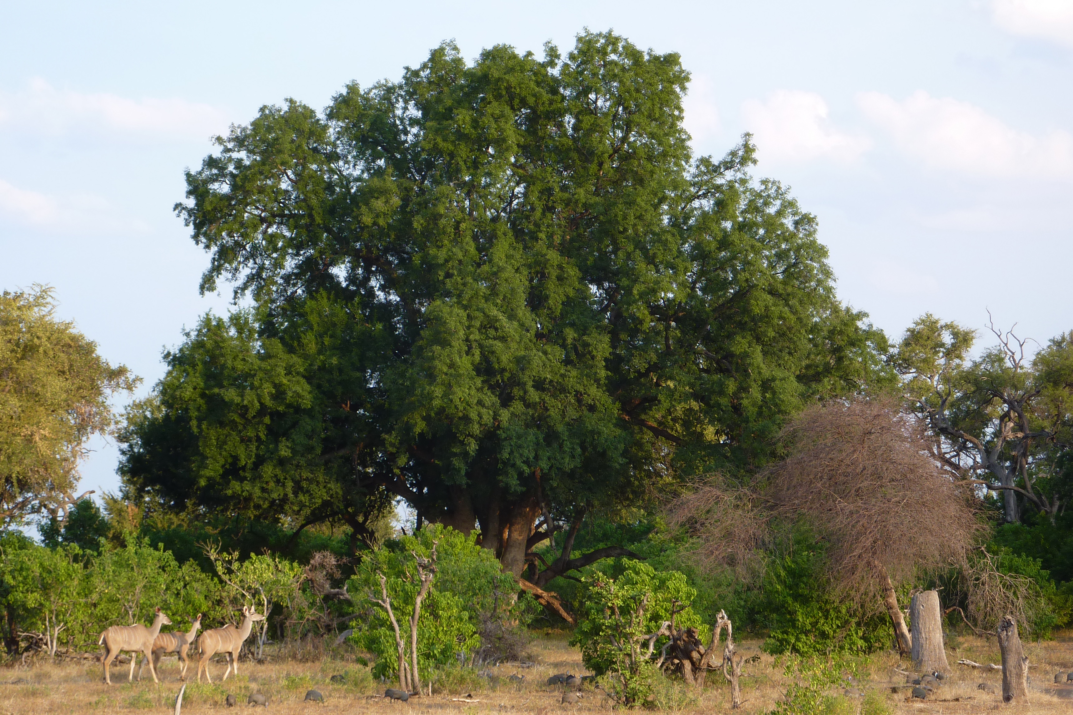 Mashatu tree taken at the Mashatu Main Camp in Botswana. Kudu and guineafowl in foreground.